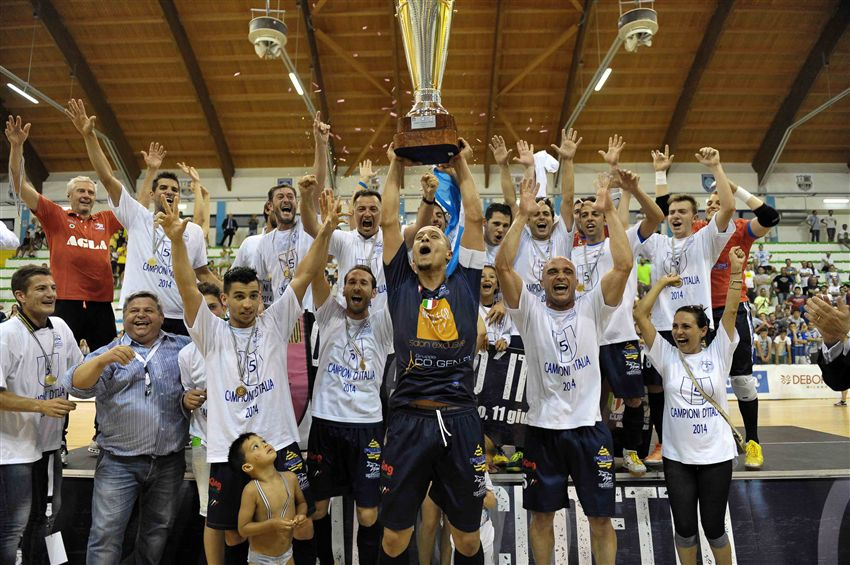 Luparense wins its fifth National Title (Serie A 2013-2014)